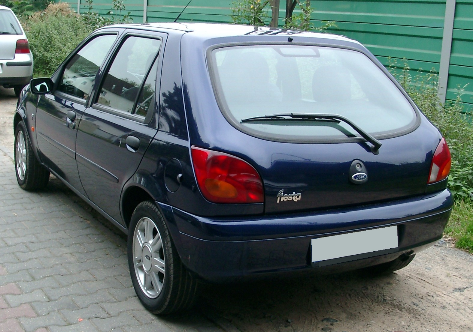 Ford Fiesta MK5